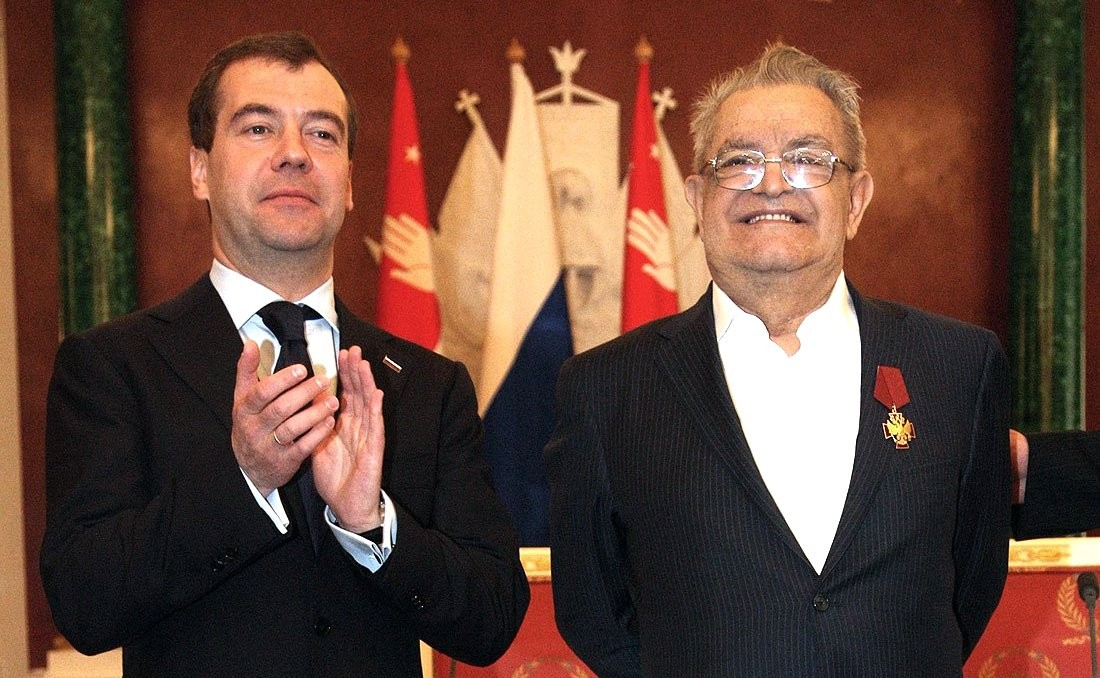 Dmitry Medvedev, and Fazil Iskander.